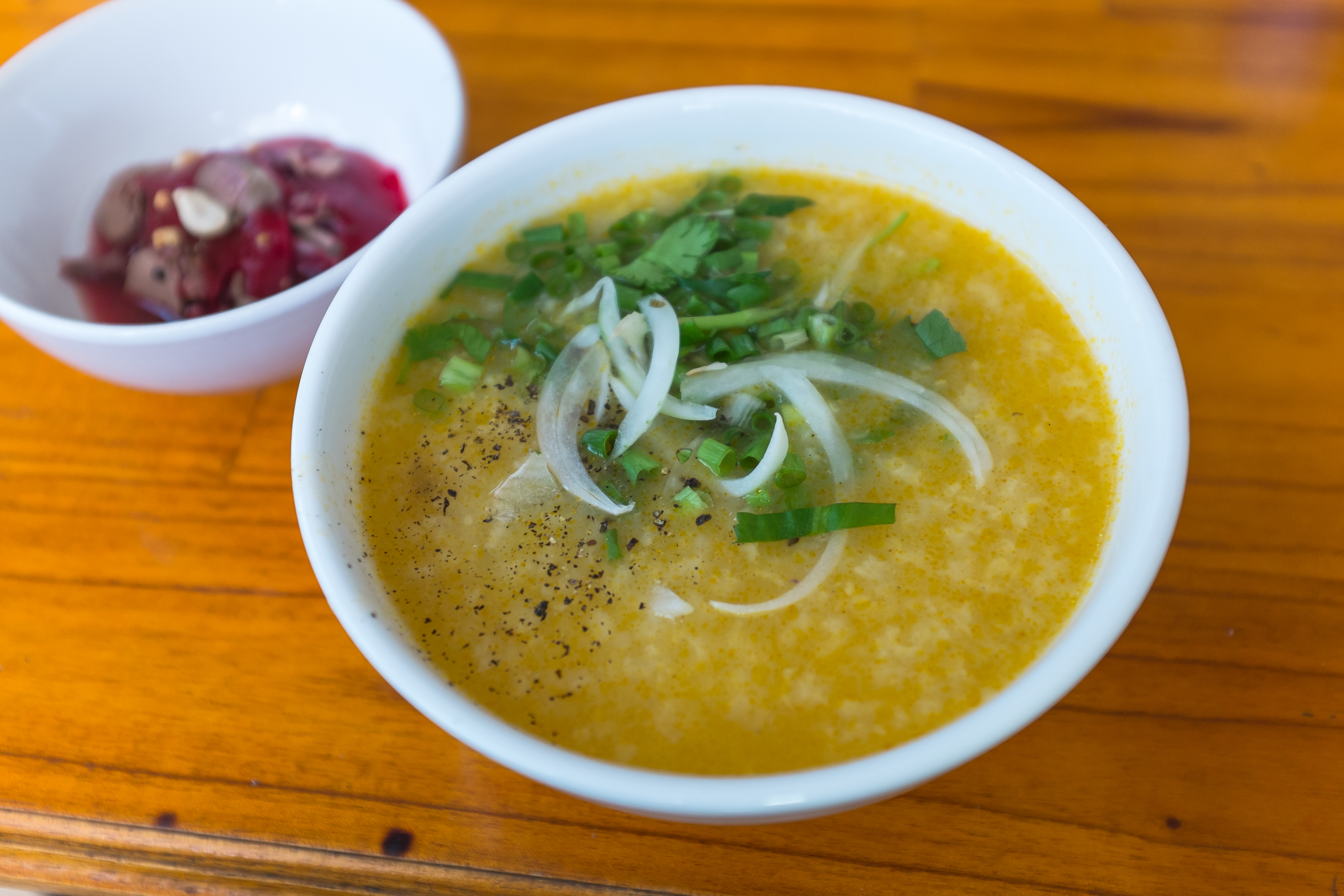 Vietnamese congee accompanied with jelly of duck blood.